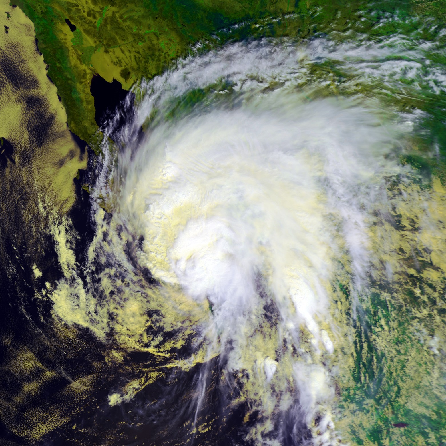 Hurricane Marty at landfall on September 22 at 1800 UTC. This image was produced from data from NOAA-17, provided by NOAA. The storm's maximum sustained winds were 80 mph.